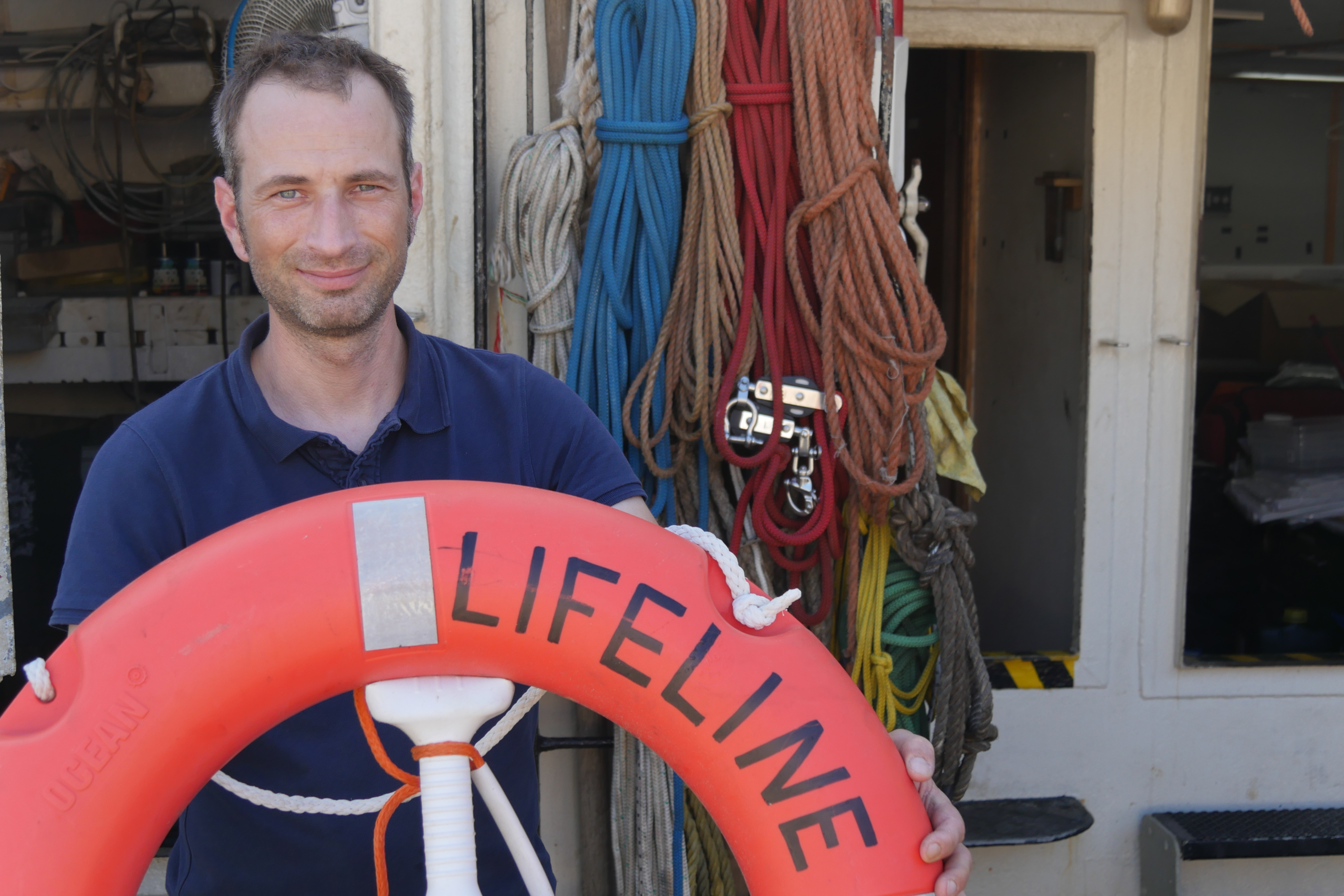 Axel Steier, First Mission Lifeline Search and Rescue from 2017-09-14 until 2017-10-01